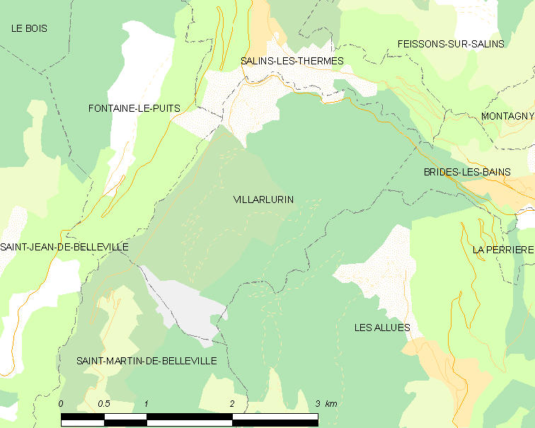 Map of French municipality Villarlurin